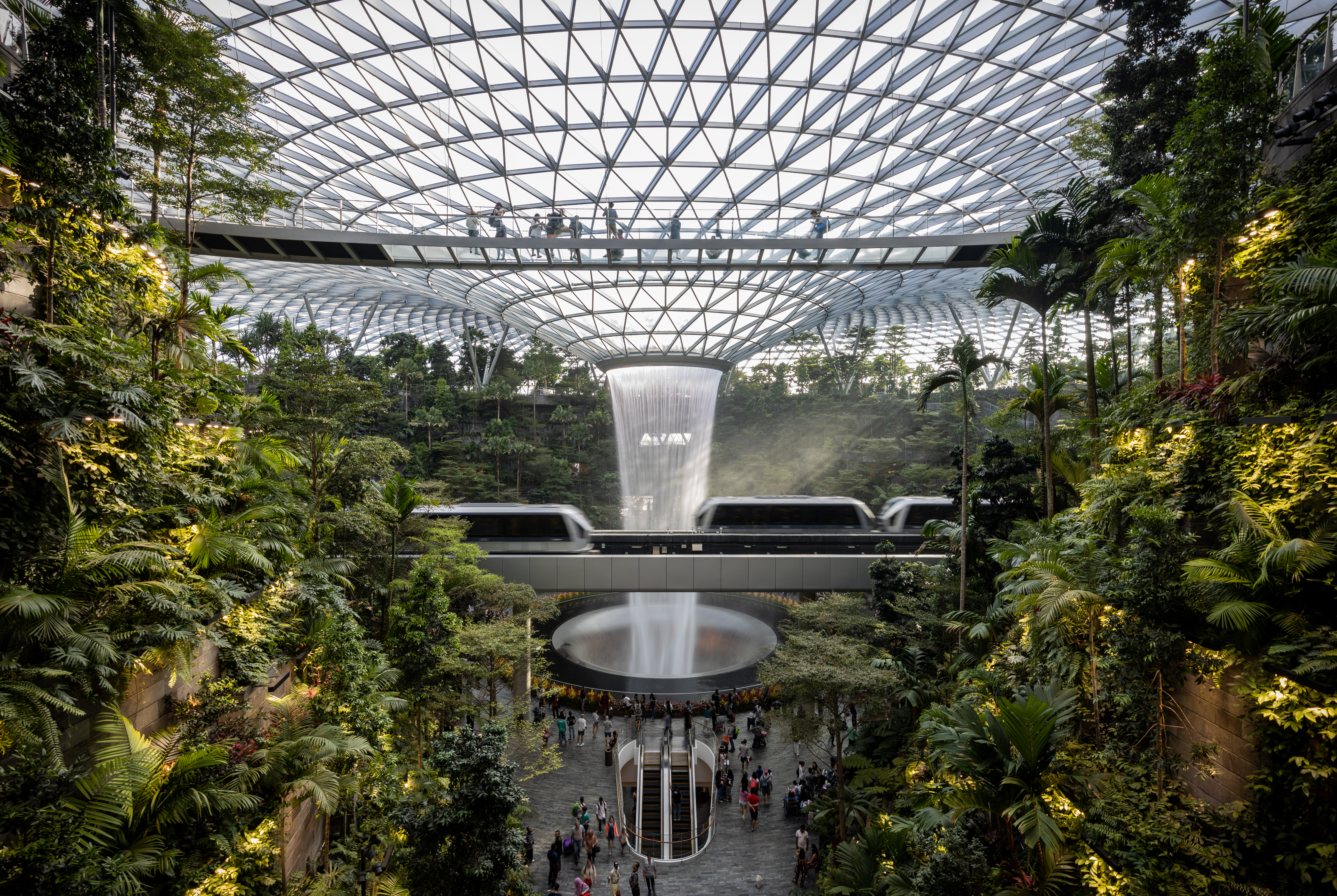 Jewel Changi Airport (also known as Jewel or Jewel Changi) is a nature-themed entertainment and retail complex on the landside of Changi Airport, Singapore. Linked to three of its passenger terminals, the centrepiece is the world's tallest indoor waterfall, named the Rain Vortex, which is surrounded by a terraced forest setting.